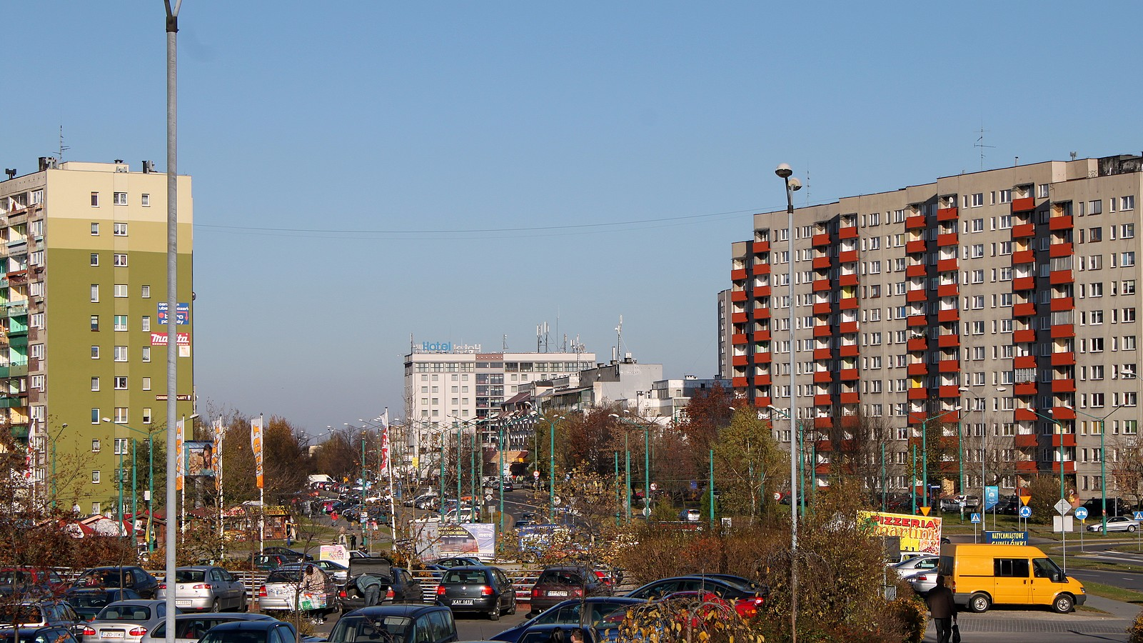 Tychy Dmowskiego